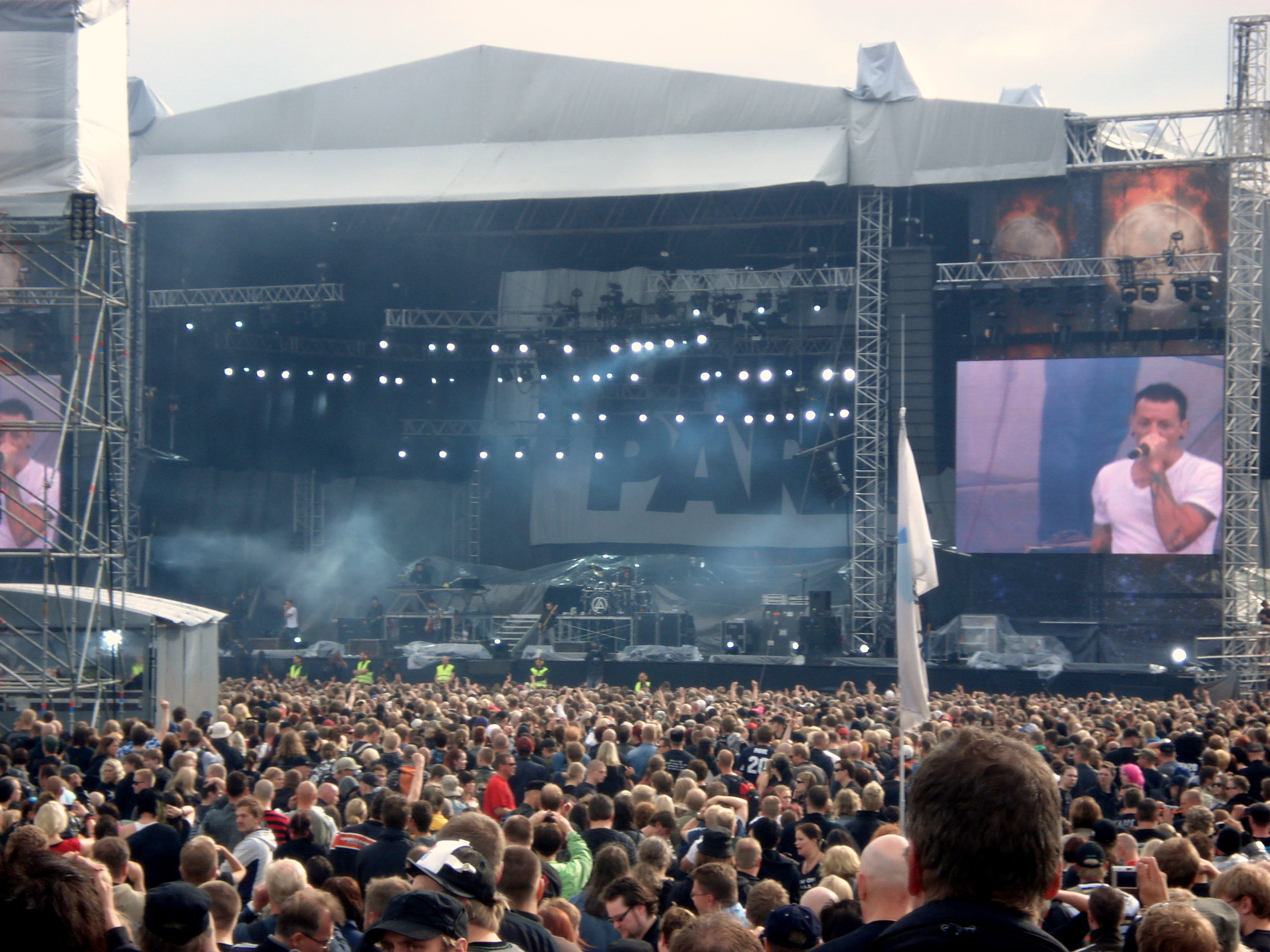 Linkin Park performing at Sonisphere Festival in Kirjurinluoto, Pori, Finland.